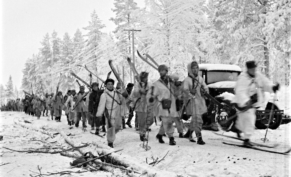 Finnish troops marching to Raate-Road. On the road rest of the Russian 163rd division.